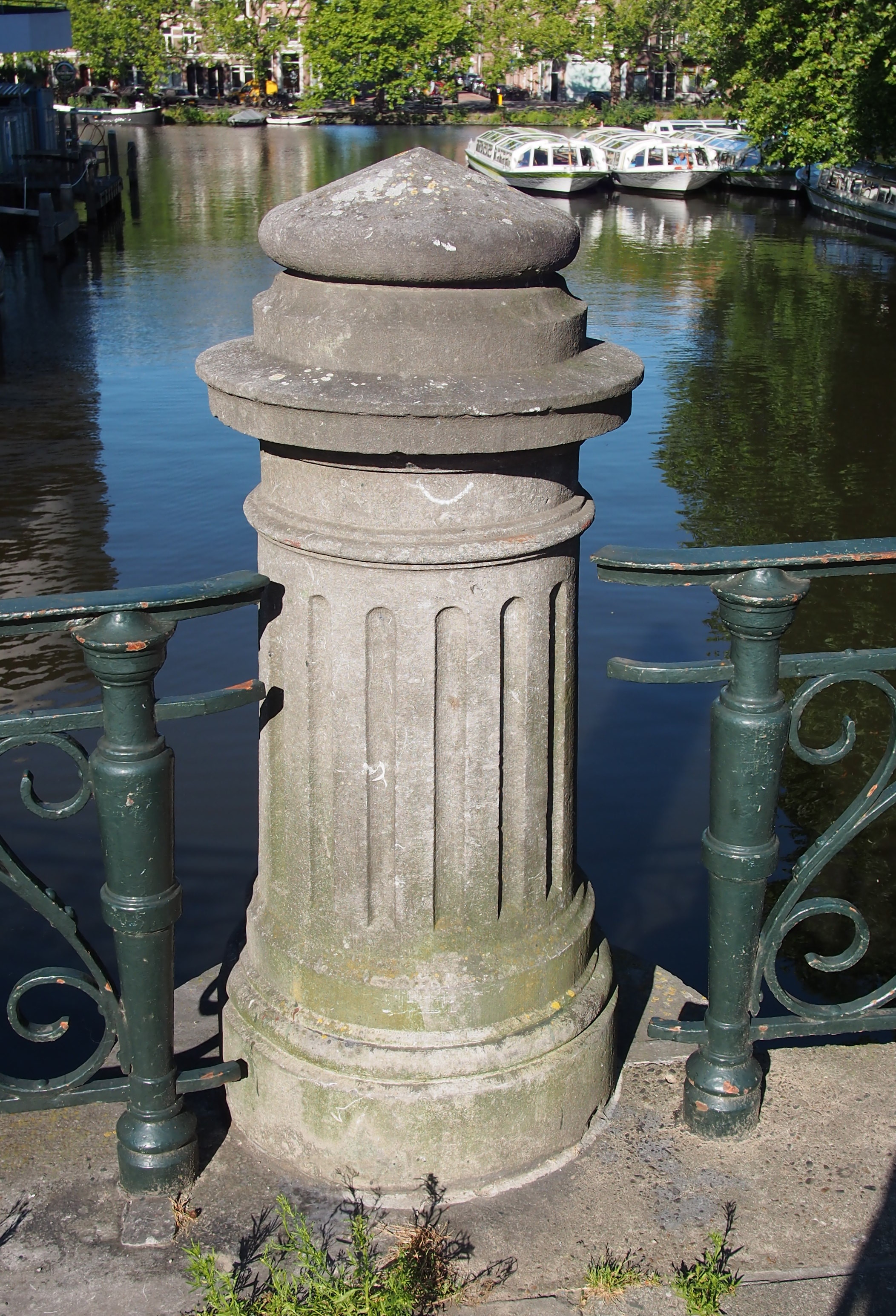 Photographed at Amsterdam, The Netherlands.